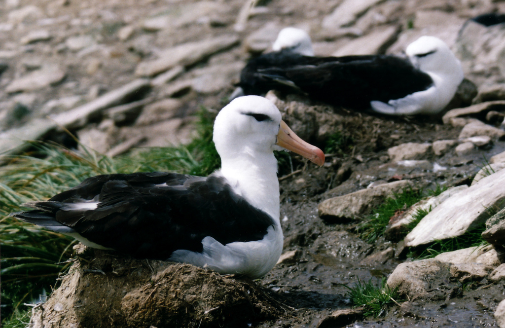 Thalassarche melanophris